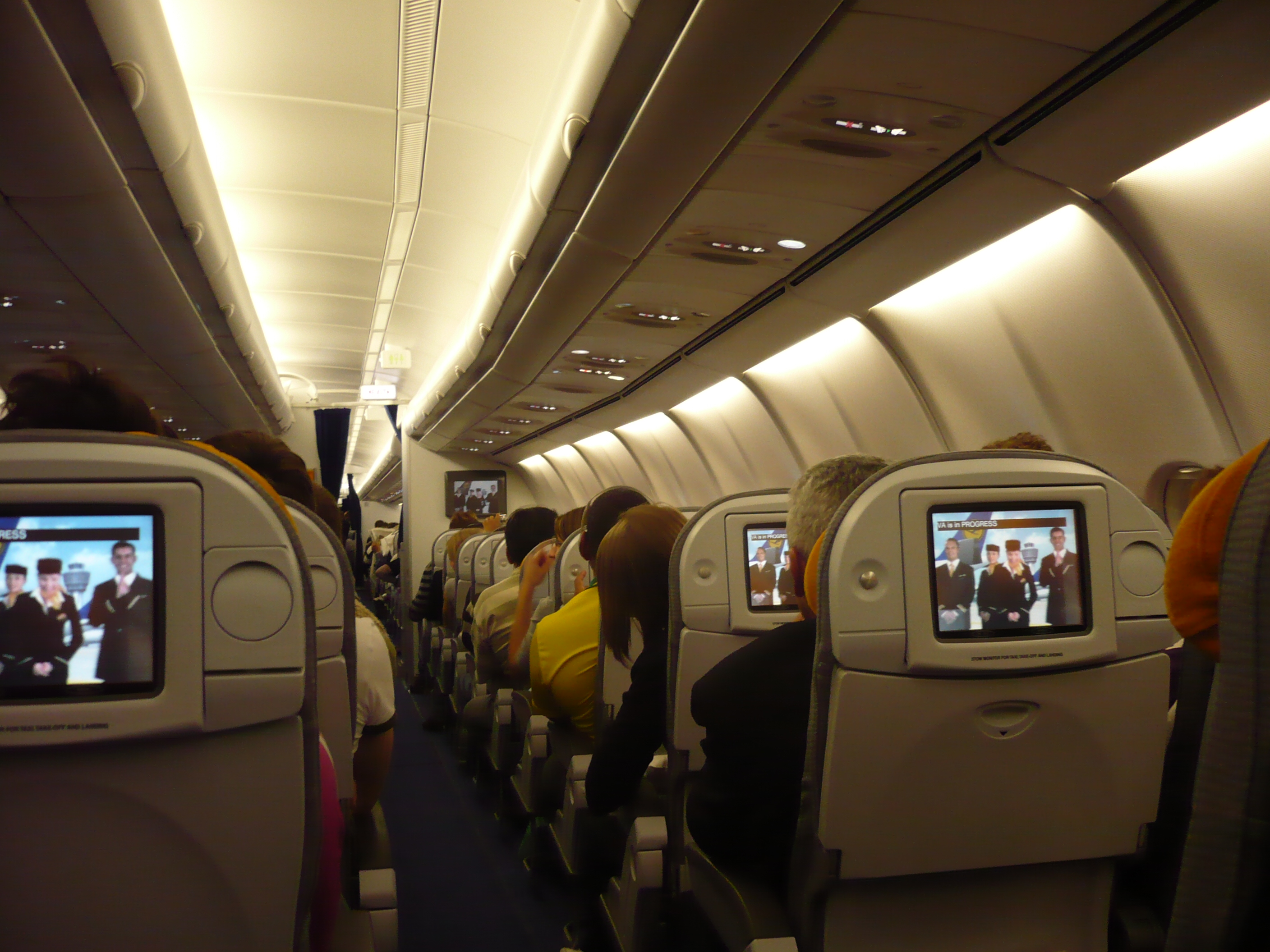 Economy Class of a Lufthansa Airbus A340-600